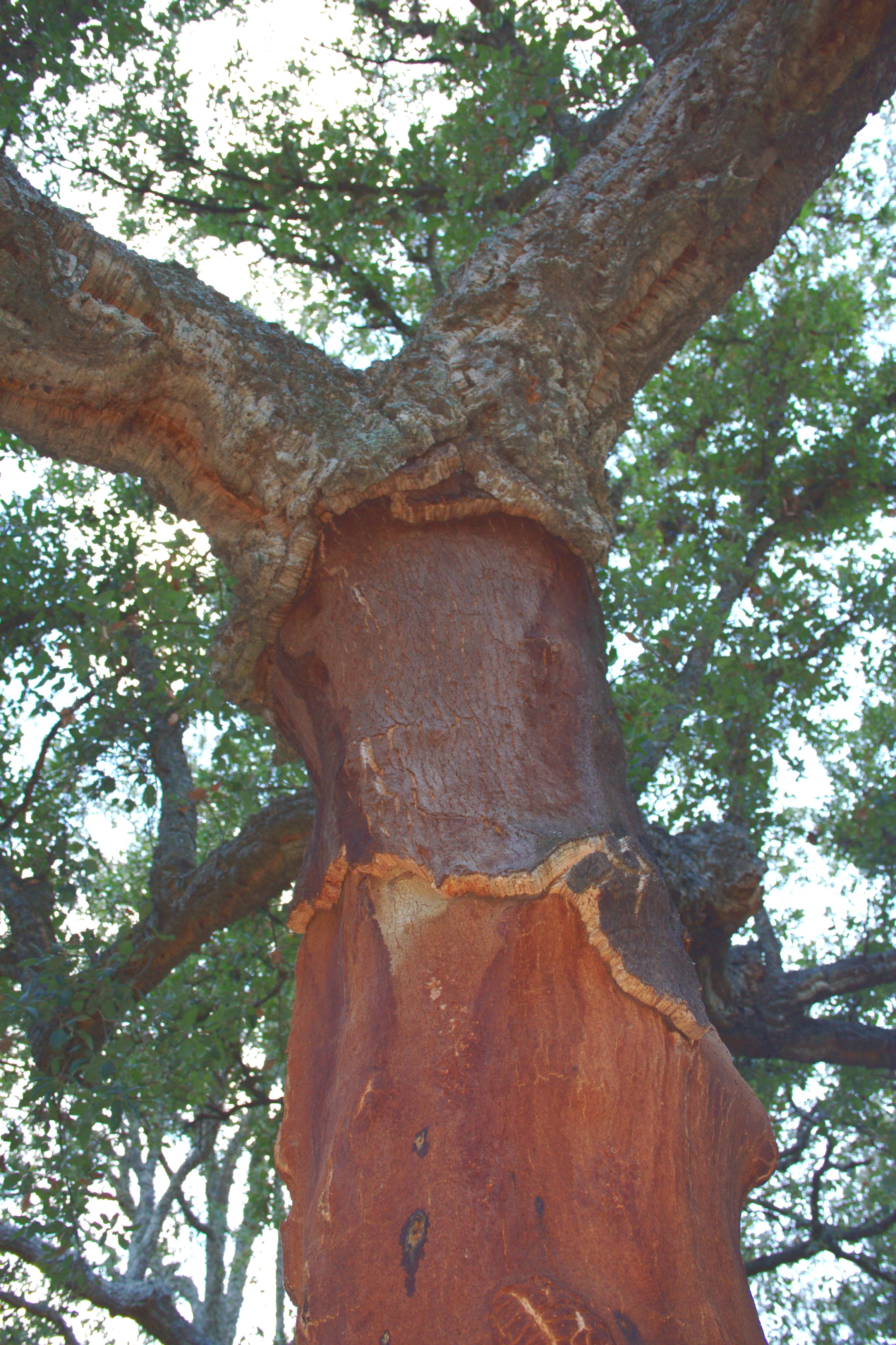 Alcornoque. Quercus suber. Cork oak.